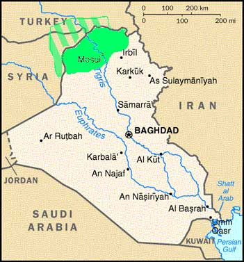 Map of assyrian people